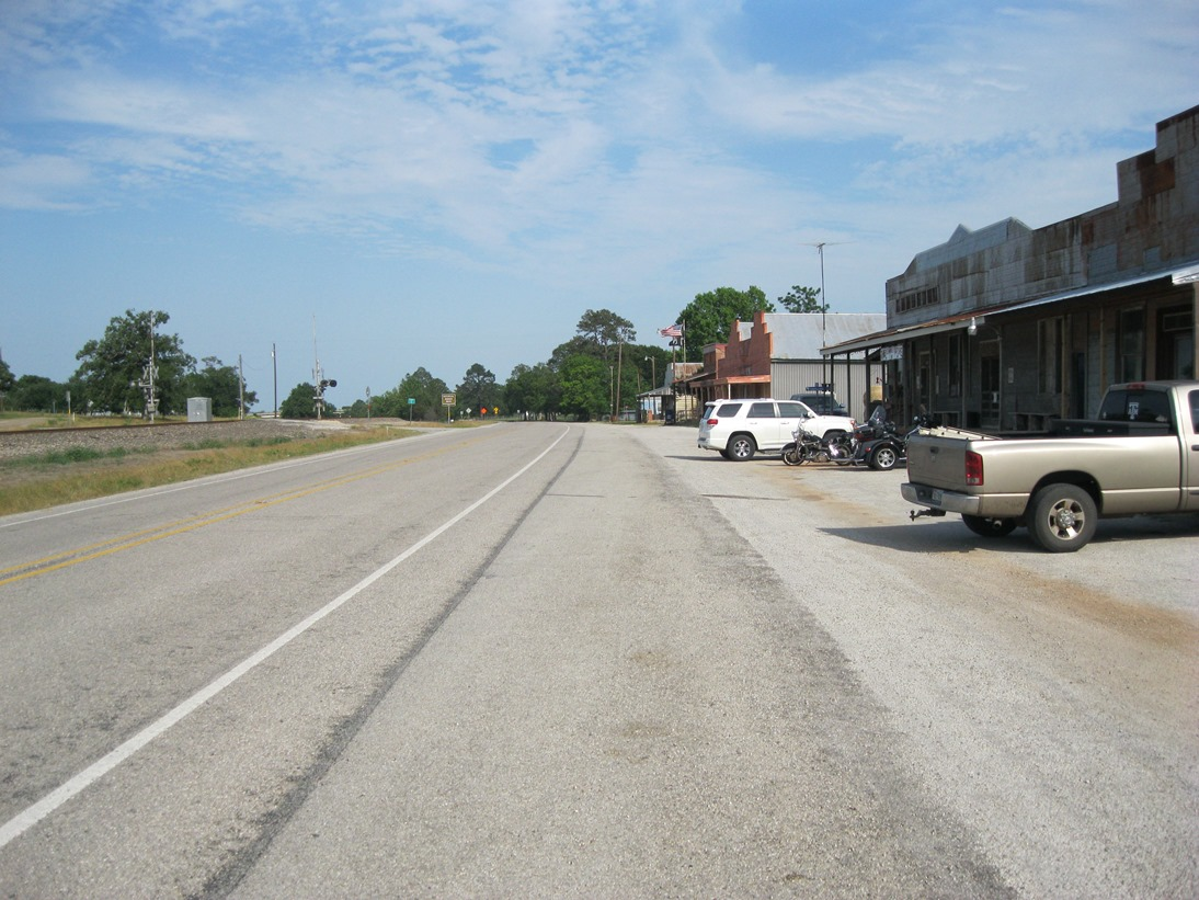 Photo shows several buildings on Loop 497 at the center of Kenney, Texas. View is to the southeast.